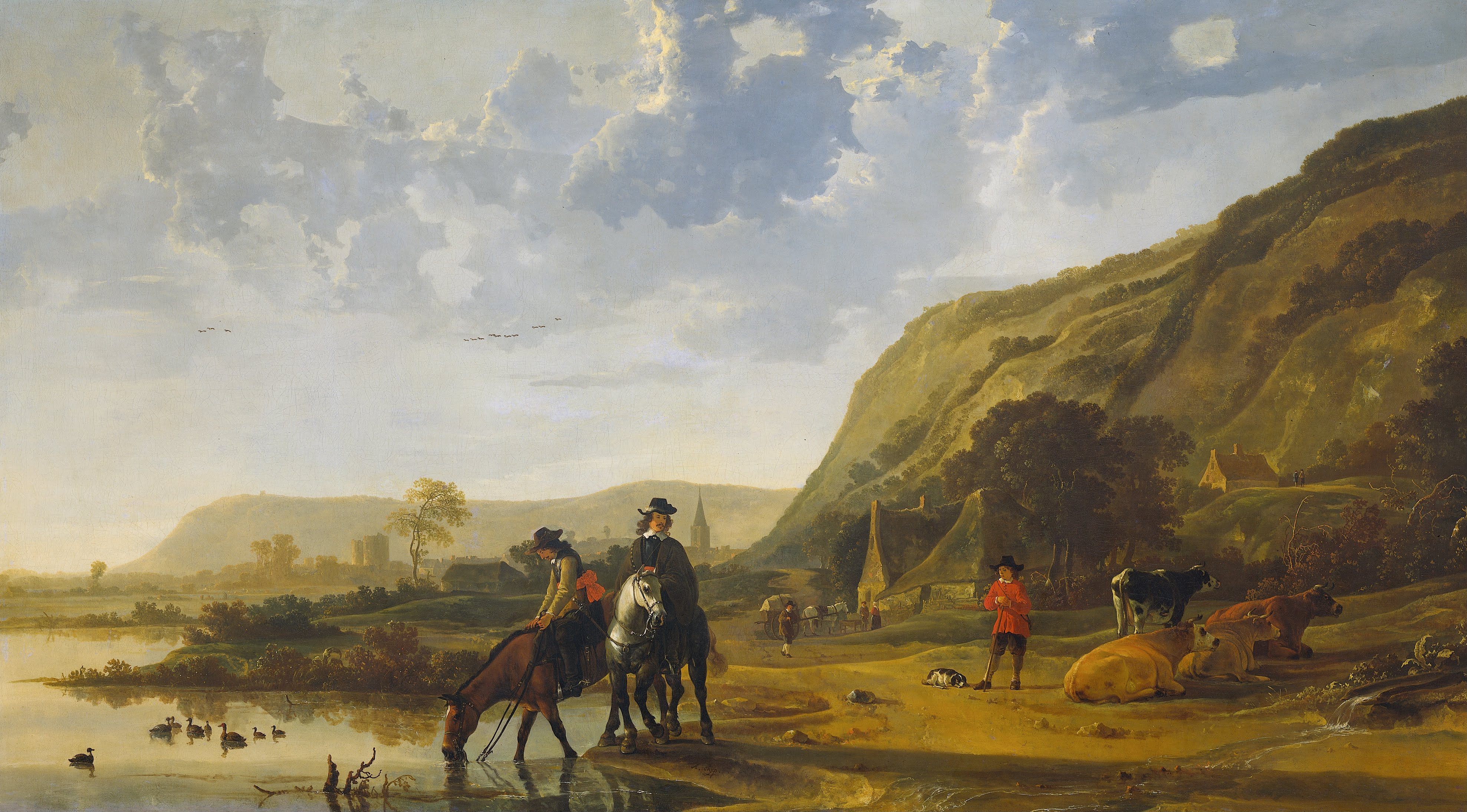 River landscape with two riders, one of which is watering his horse. To the right a herdsman guarding his cattle. Behind him a few houses; in the distance the towers of a town.